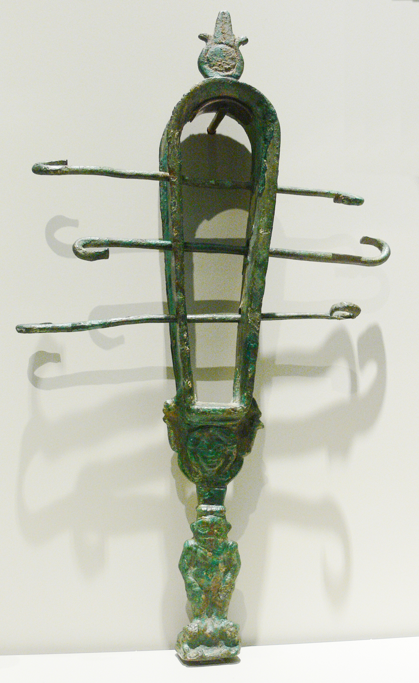 Sistrum; Bronze; 30th dynasty of Egypt, c. 350 BC. Egyptian Museum Berlin, inv. no. 2767.